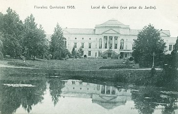 Casino, Gent, Belgium